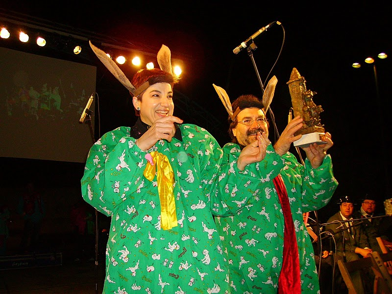 Lloll Bertran and Celdoni Fonoll, 2007